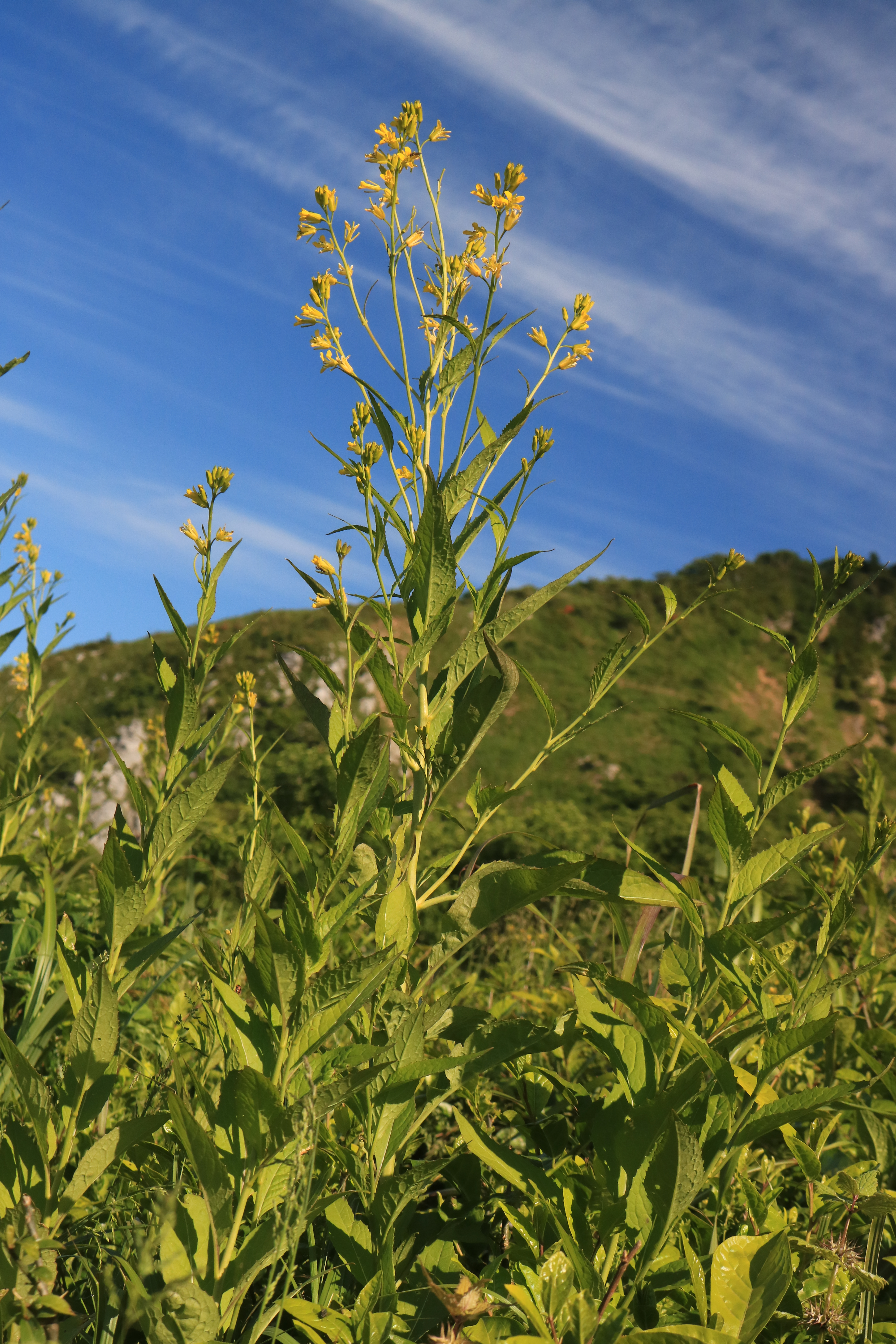 Sisymbrium luteum in Mount Ibuki, Maibara, Shiga Prefecture, Japan.